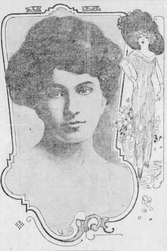 The San Francisco Examiner, 12 Aug 1911, Sat, Main Edition, Page 3